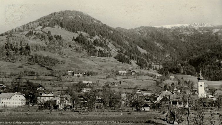 Obermillstatt near Lake Millstatt (Millstätter See), district Spittal an der Drau in Carinthia / Austria / Middle Europe / European Union. The white building on the far left, the former elementary school. Slightly set back the former municipal office. On the far right of the Catholic Church.